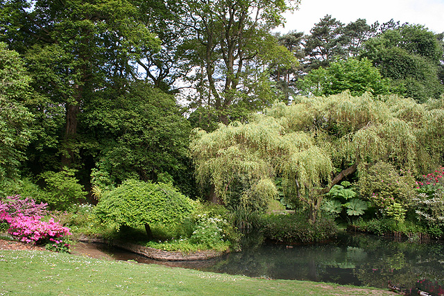 Swansea: Clyne Gardens. The gardens are open to the public. Looking north-north-west